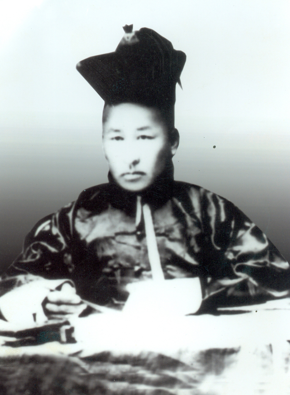 Монгол: First director of Mongolian news agency Tsedevsuren. Photo taken before 1922.